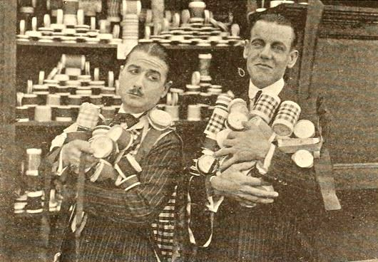 Still of Neely Edwards (right) and Edward Flanagan as The Hall Room Boys from one of their comedy shorts. On page 1255 of the August 9, 1919 Motion Picture News.